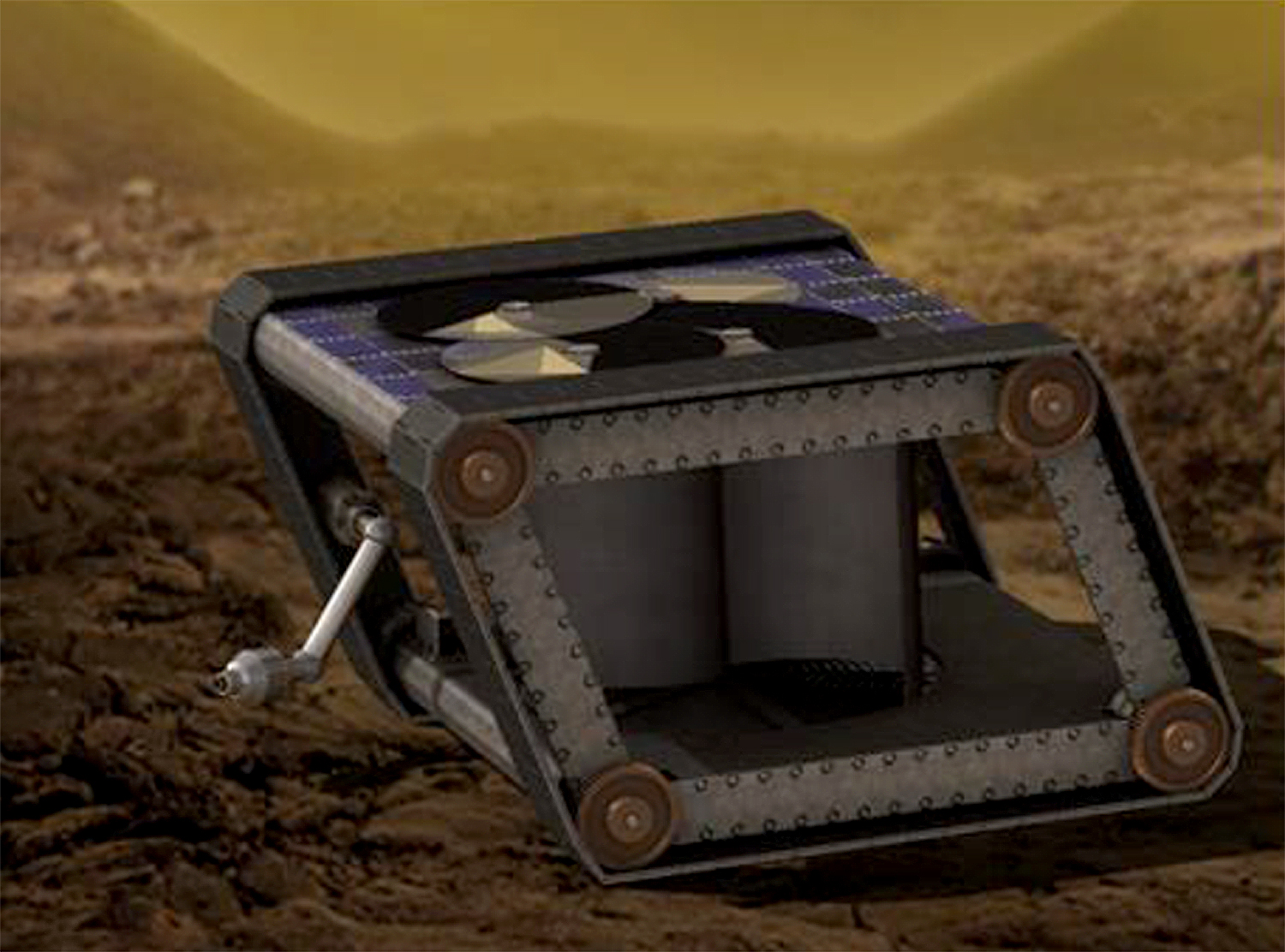 Automaton Rover for Extreme Environments (AREE), a NASA proposal to explore Venus using an entirely or largely non-electronic rover.